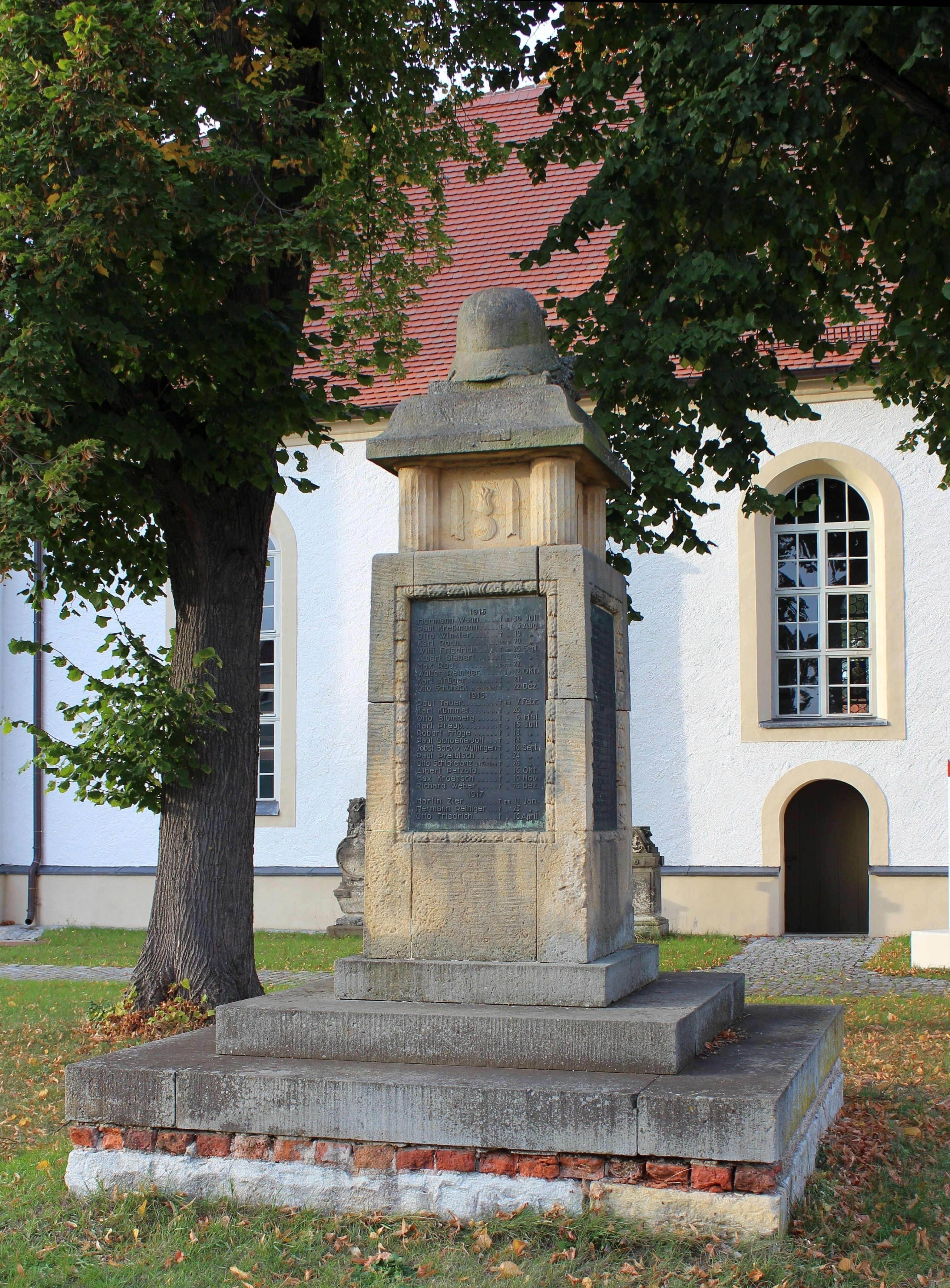 War memorial for the dead of World War I in Uebigau.